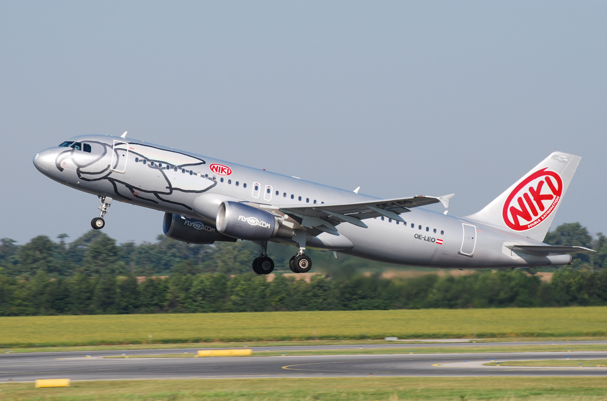 Niki Airbus OE-LEO at VIE